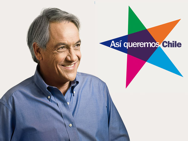 Symbol of the campaign of Sebastián Piñera for the elections of President of Chile in 2009